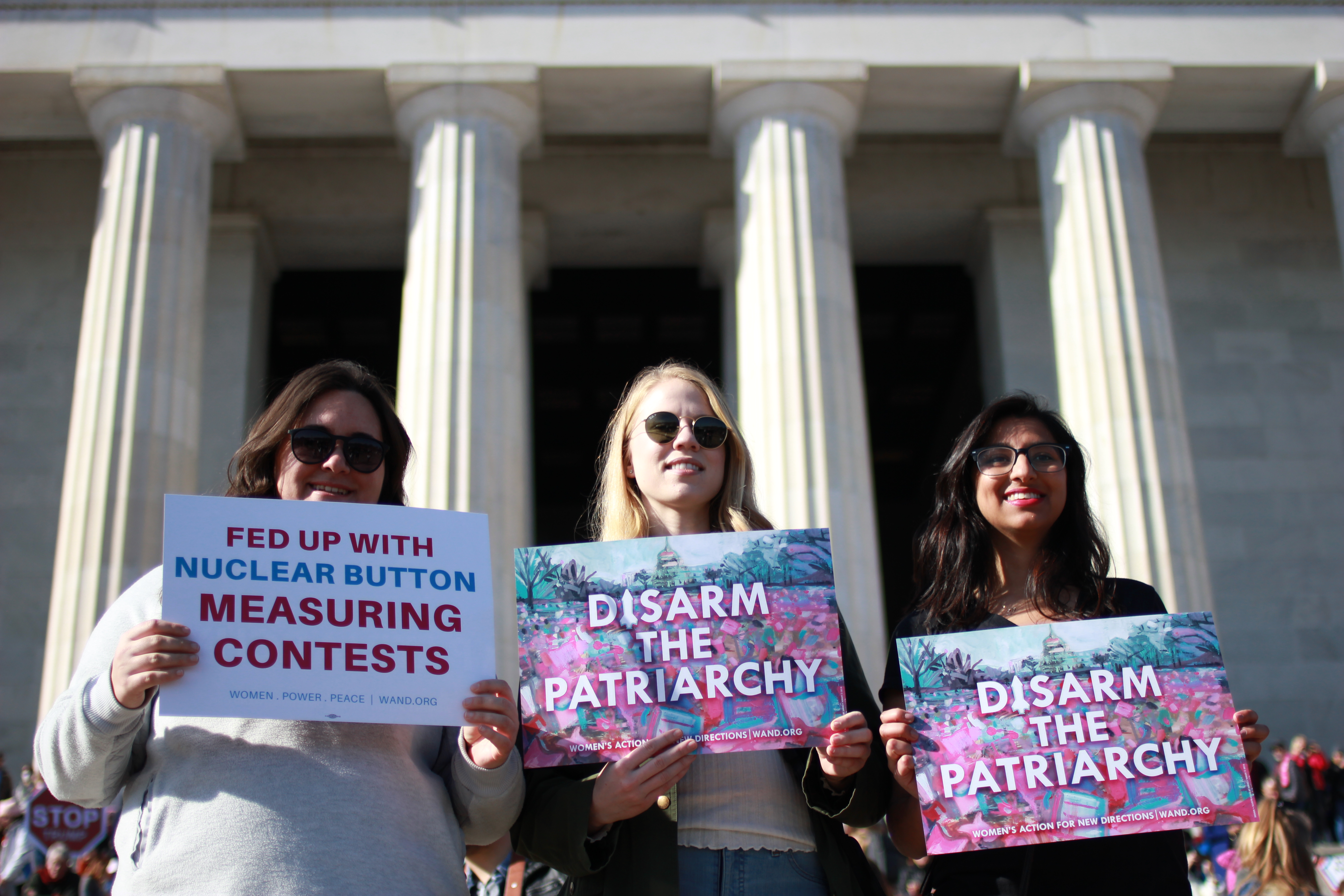 Activists hold WAND signs at Women's March 2018 in DC